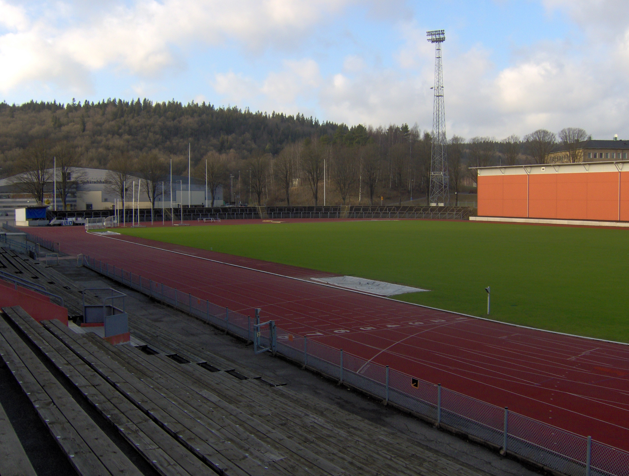 Curve and Ryahallen at Ryavallen.